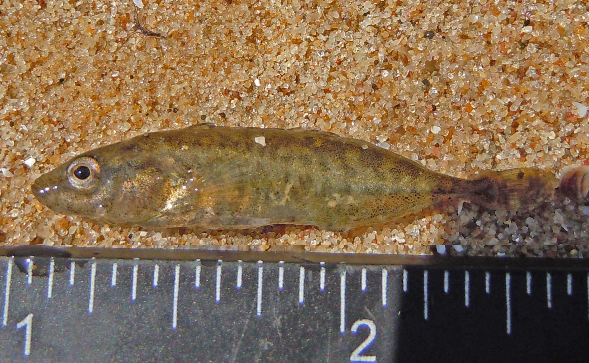 Ukrainian stickleback (Pungitius platygaster) from the Dniester Estuary, Ukraine